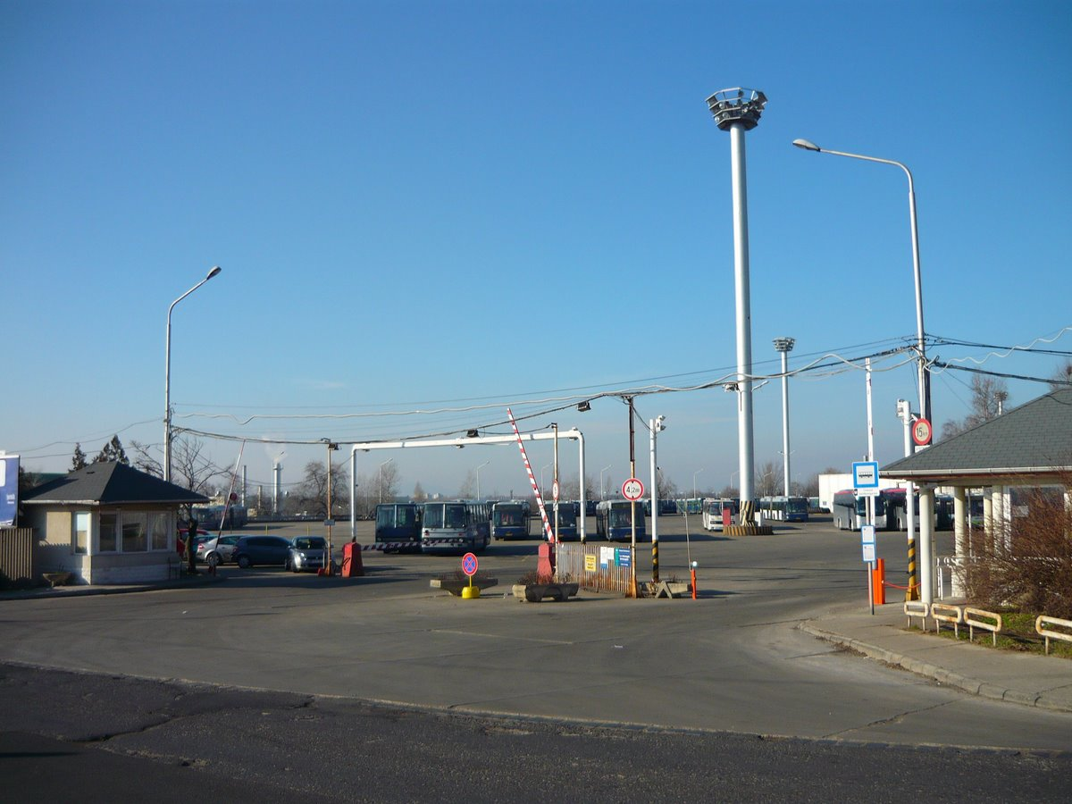 Bus depo at Cinkota, Budapest